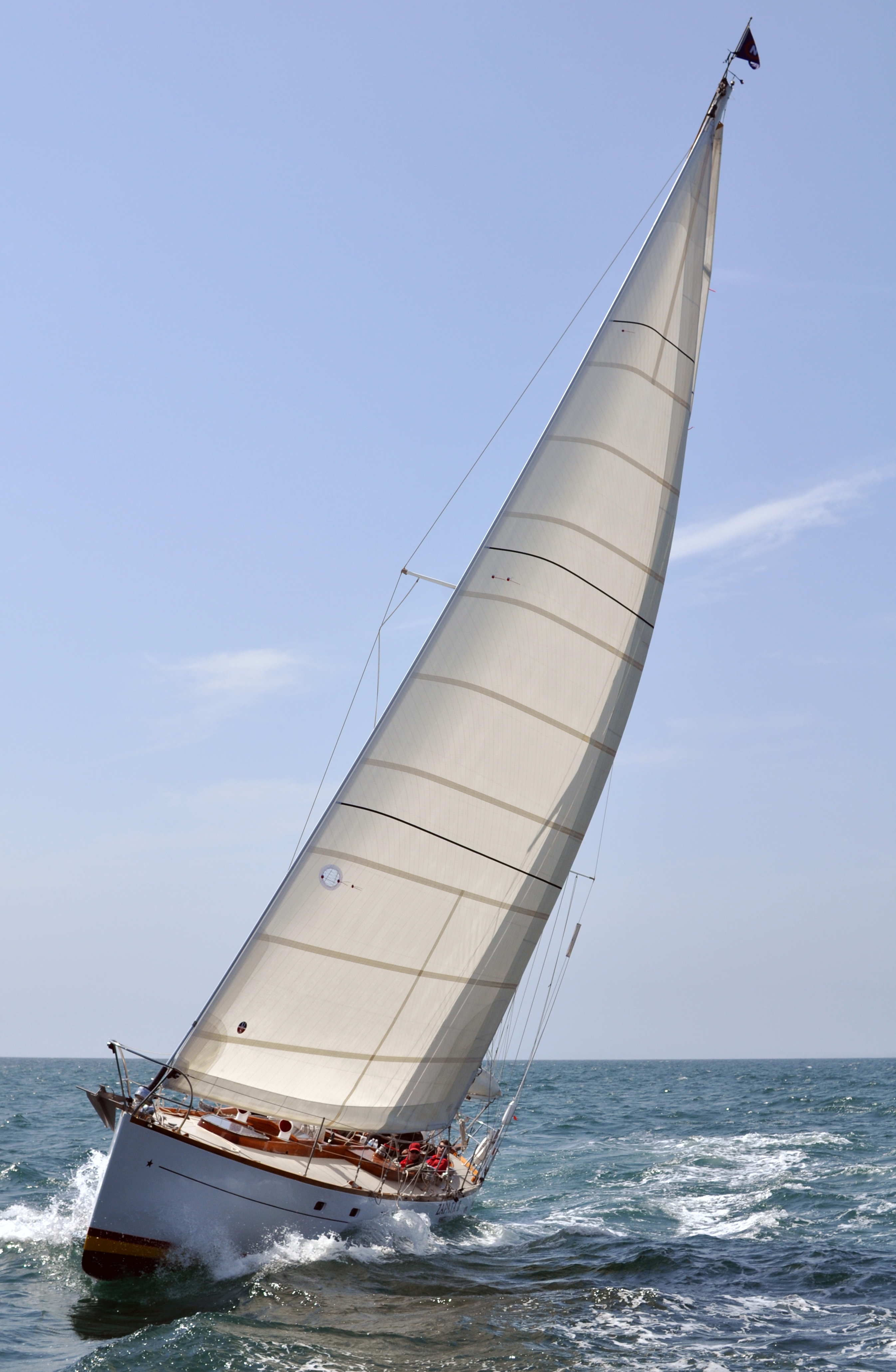 2013 Ahmanson Cup Regatta yacht Zapata II alt by D Ramey Logan